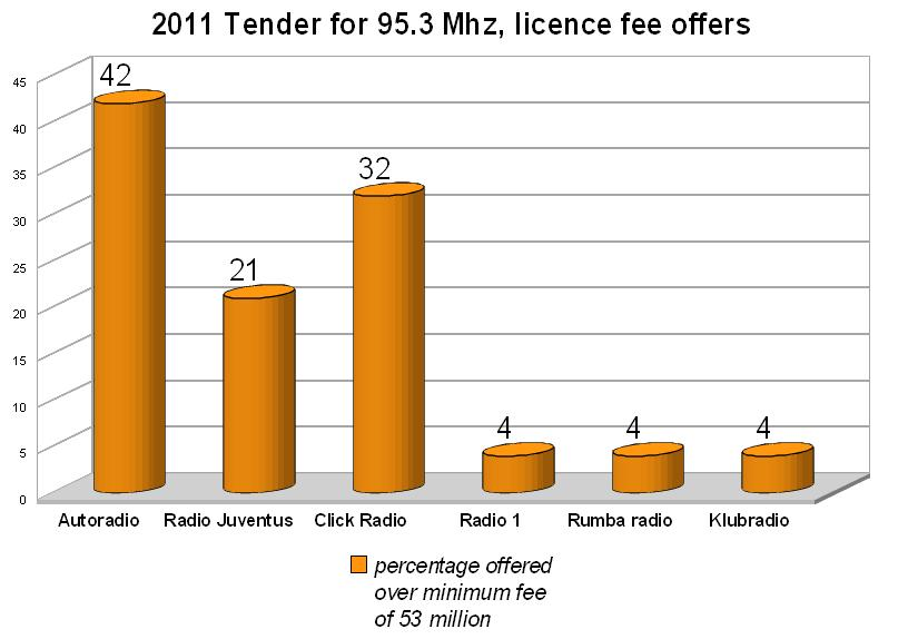 This picture shows the percentage amounts of which various bidders offered to pay for the frequency in a 2011 radio tender in Hungary for the 95,3 Mhz frequency. The percentages refer to the amount offered over the absolute minimum amount for the tender, 53 million forints per year. I created this image using open office. The data I used is from "Egyenes beszéd" a program on Hungarain television.